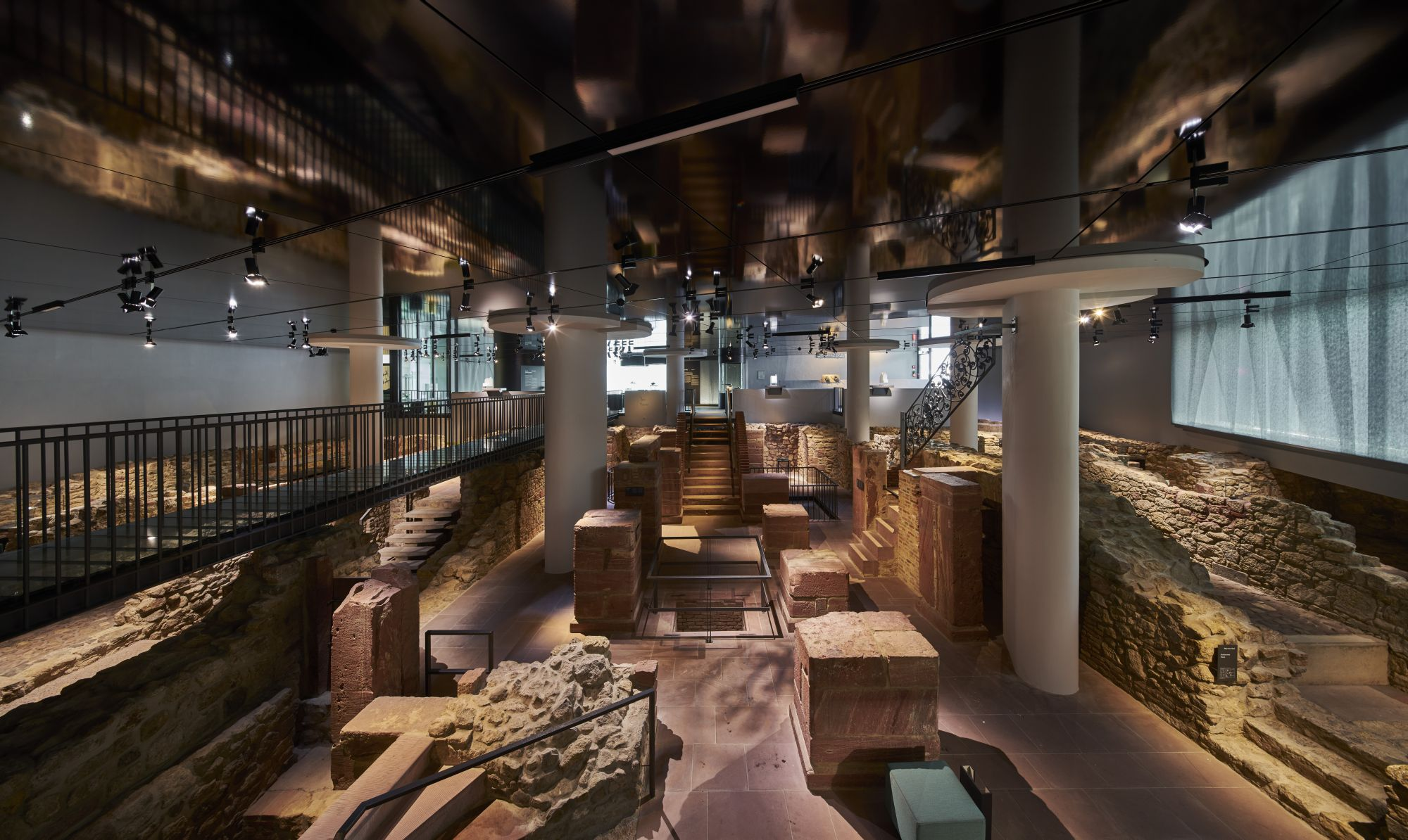 View into the Museum Judengasse with the ruins of the first Jewish ghetto in Europe.